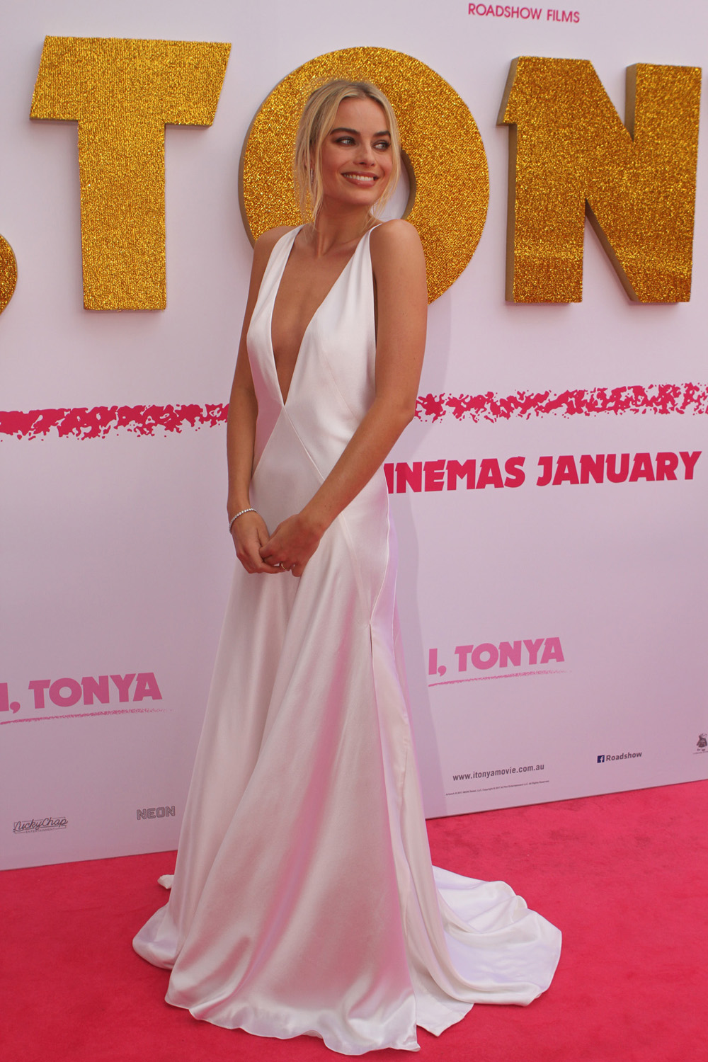 SYDNEY, AUSTRALIA - JANUARY 23 Margot Robbie arrives at the Australian Premiere of 'I, Tonya' on January 23, 2018 in Sydney, Australia photo by Eva Rinaldi